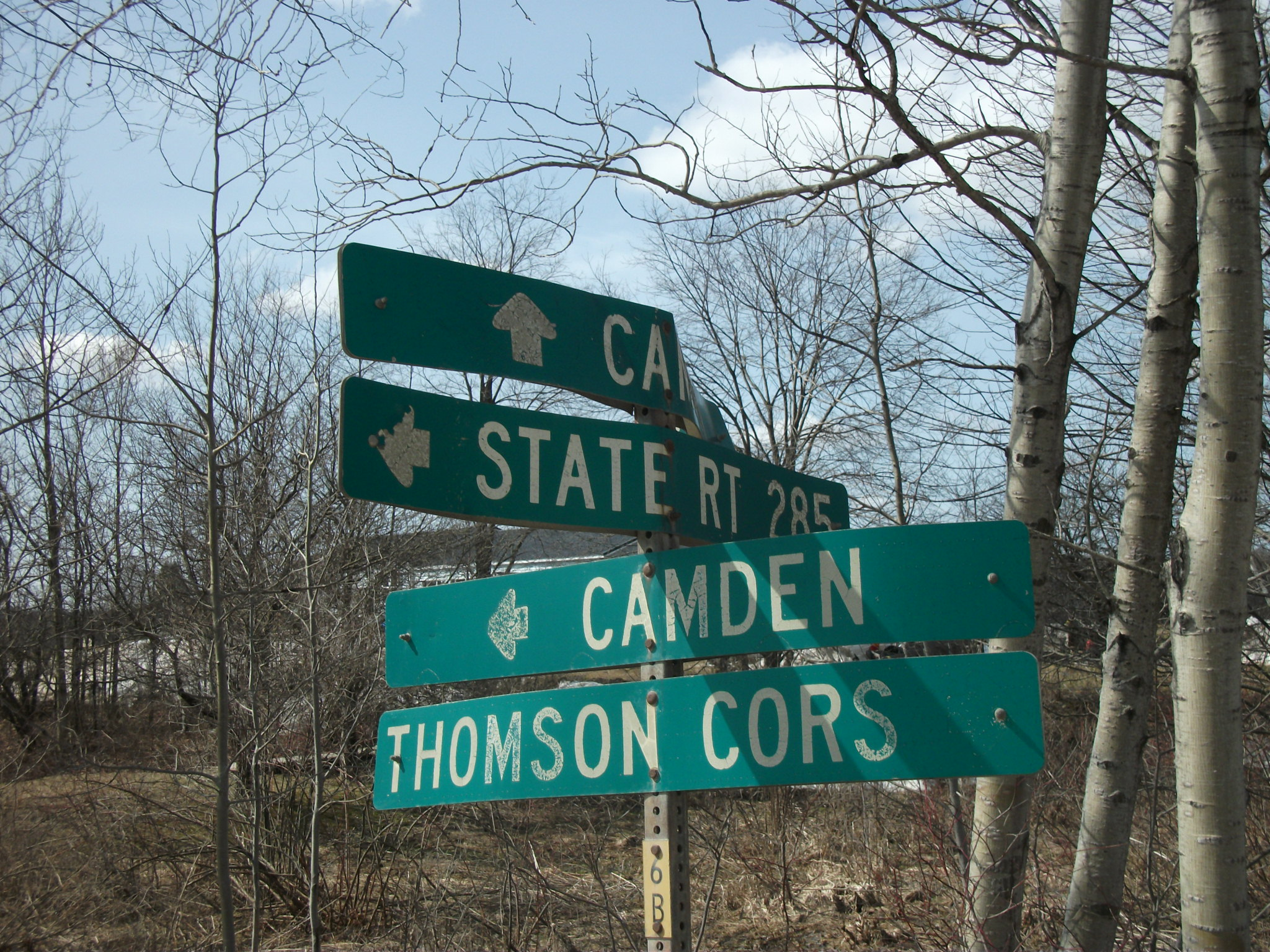 An old blade sign denoting New York State Route 285 on Wolcott Hill Road in Camden, New York.